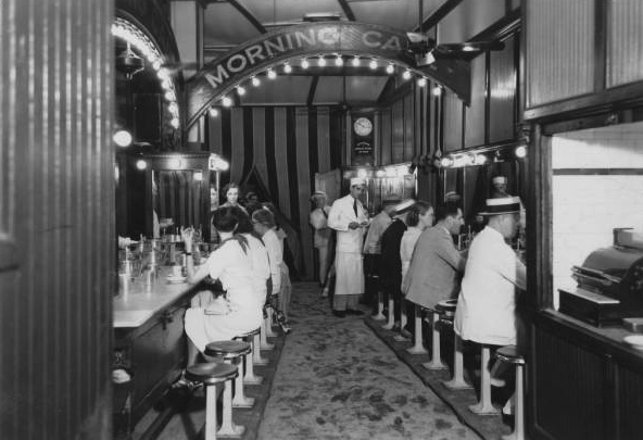 Morning Call cafe, French Market, New Orleans. Interior view, 1930s.